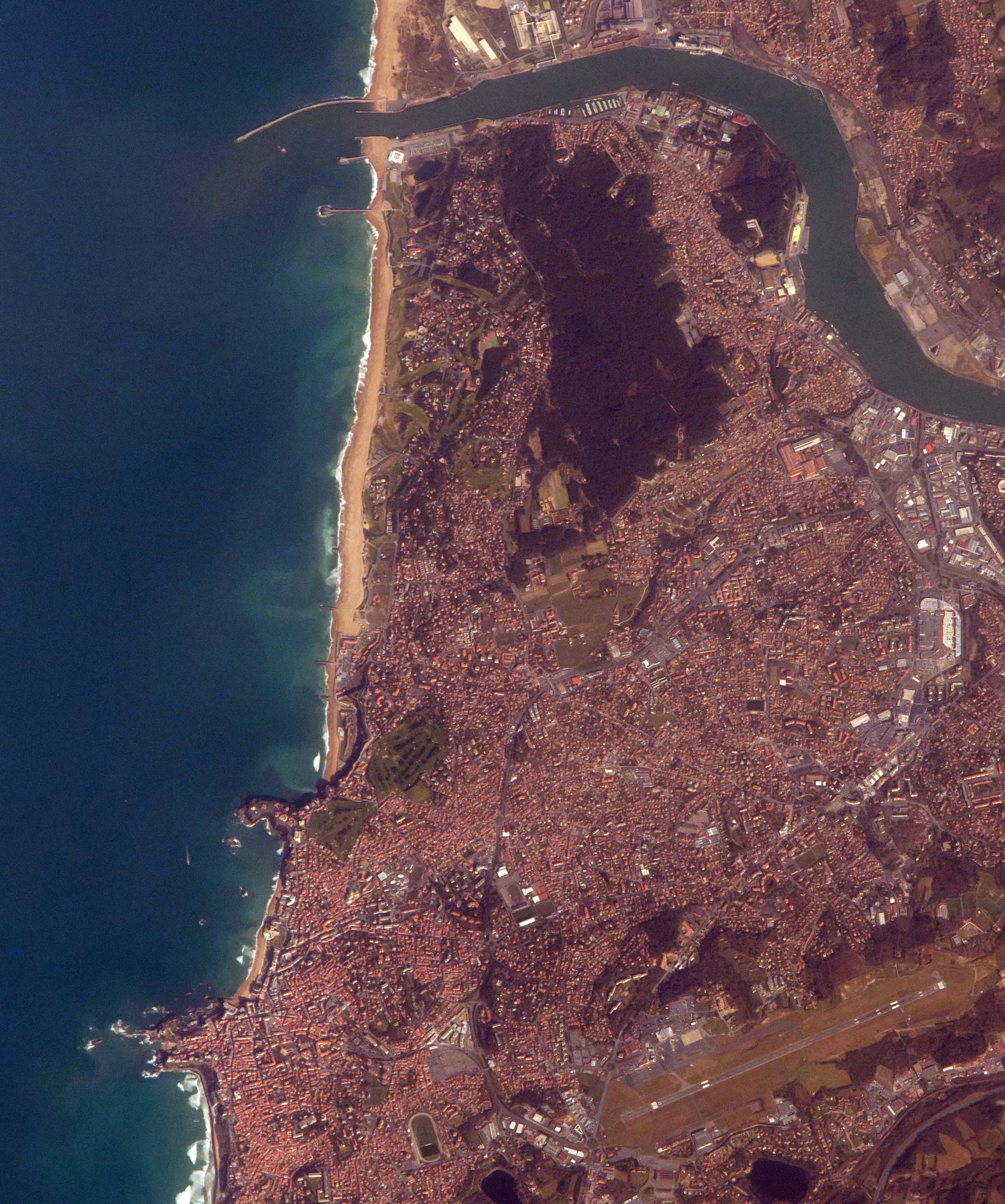 Anglet-Angelu, Labourd, Basque Country